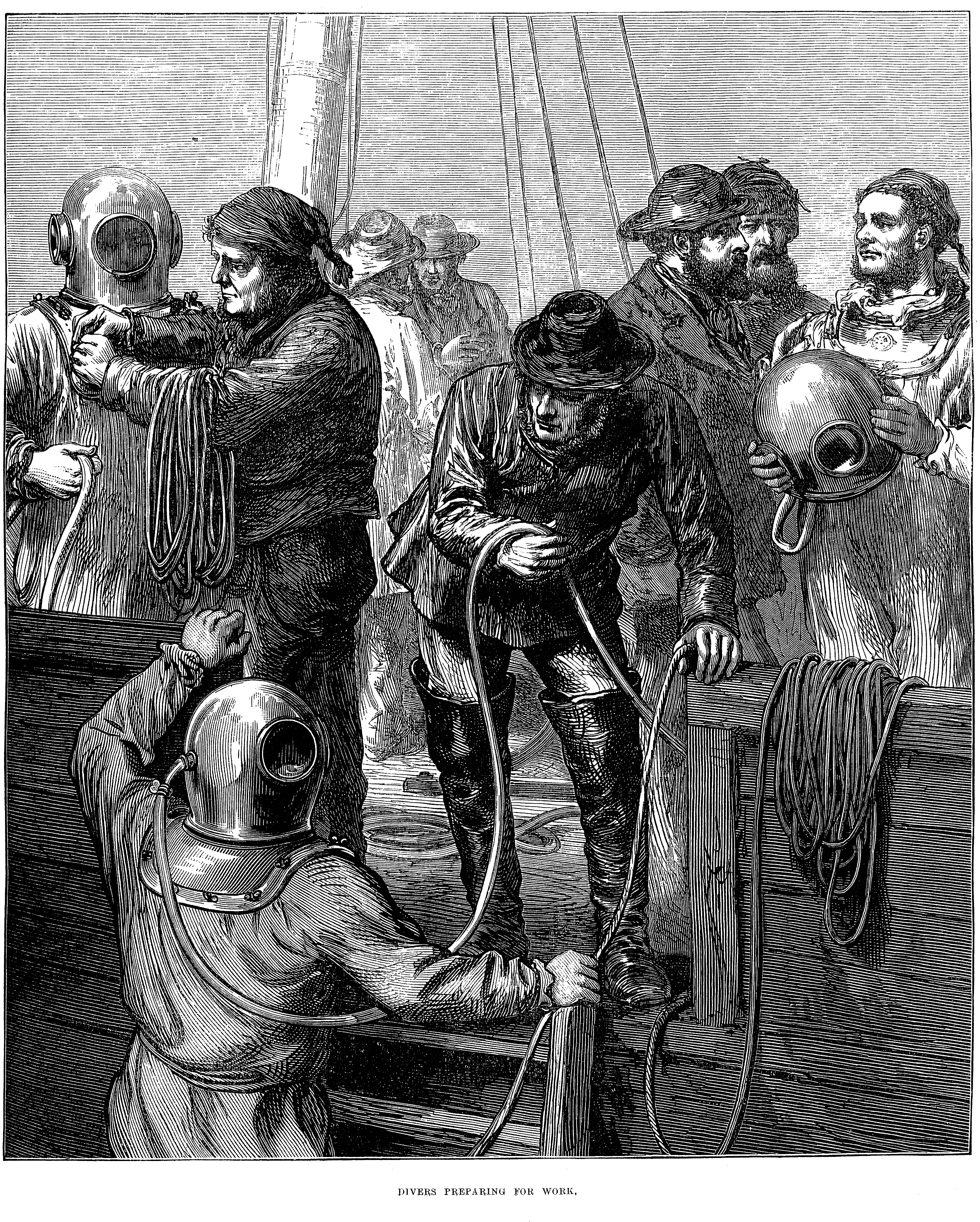 Divers Preparing for Work. Front cover illustration of the February 6, 1873 The Illustrated London News. While not labelled explicitly, the Wreck of the Northfleet, a major naval disaster, occurred on the 22nd of January, and an article in a previous issue mentions divers being sent to recover the bodies and other remains. It would presumably have been obvious what they were doing to readers of the time.